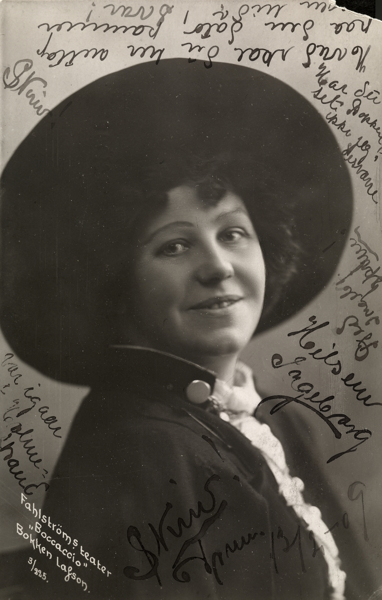 Bokken Lasson in the play Boccaccio at Fahlstrøms Theater in Oslo.